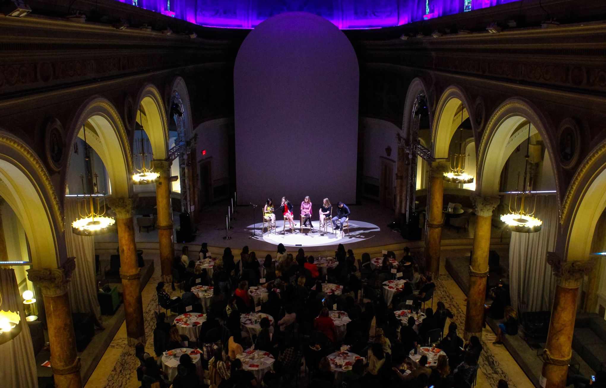 SheWorx100 Summit at 906.World